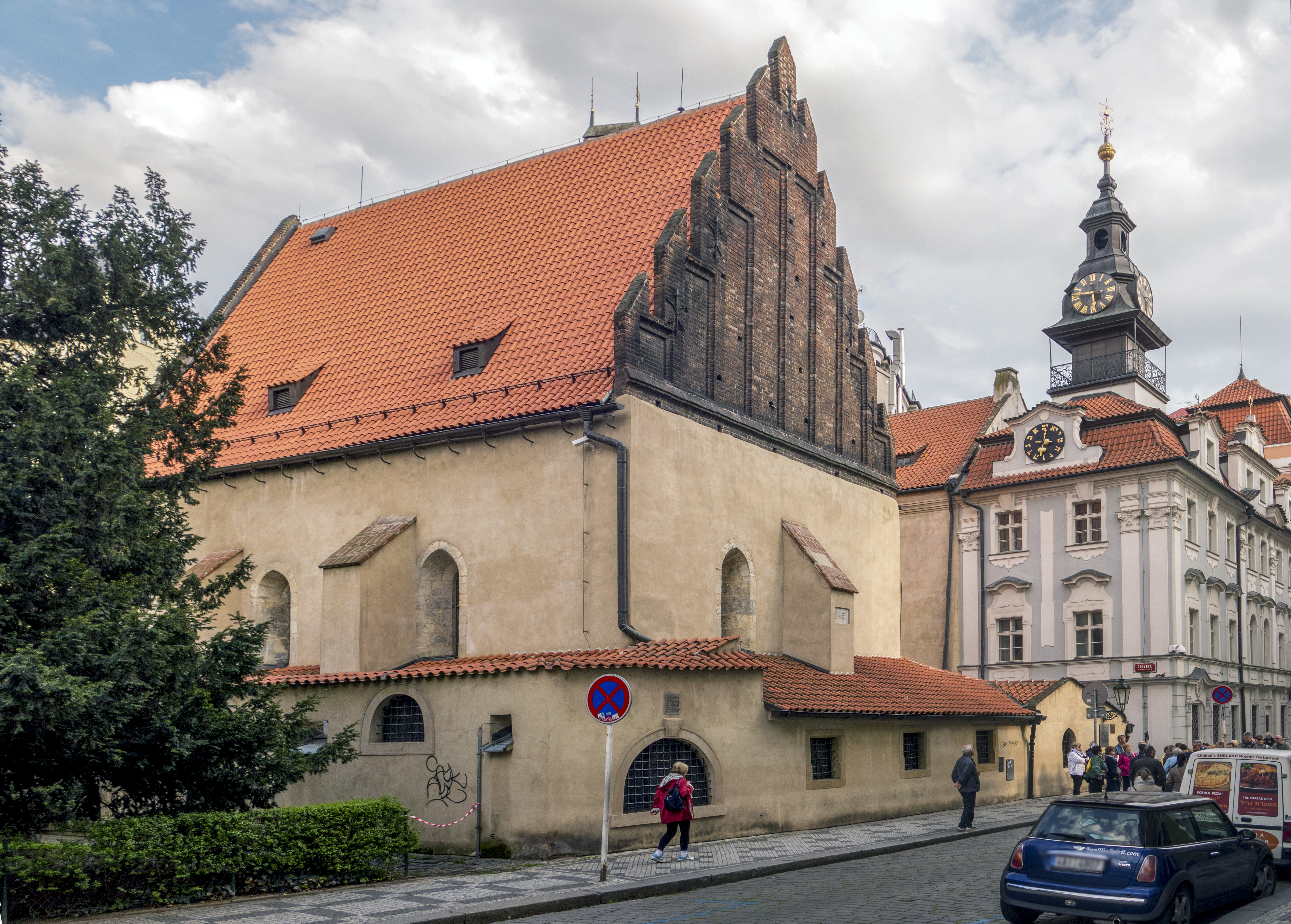 Old New Synagogue